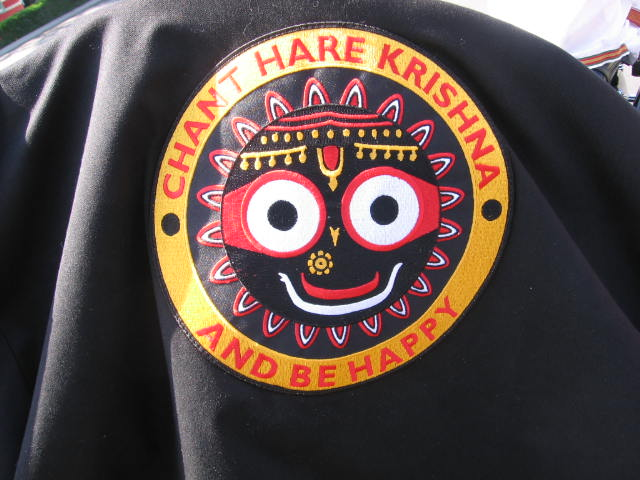 Hare Krishna motorcycle rider Jagannatha festival at Boise Idaho USA